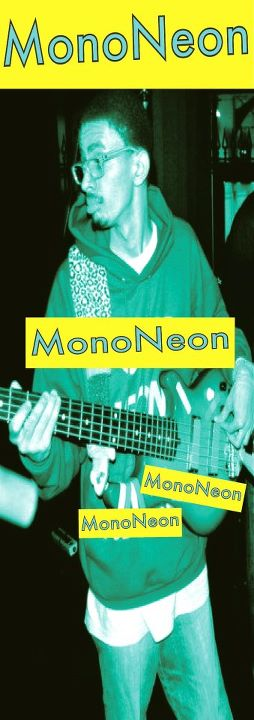 From recent research online, Dywane Thomas Jr. changed his pseudonym from "Polyneon" to "MonoNeon" on October 26, 2011. Picture was taken in Montreal, Quebec, Thomas performing under his new pseudonym "MonoNeon".